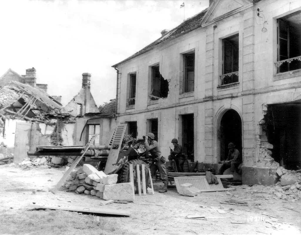 607th Tank Destroyer Battalion M5 3" anti-tank gun at Le Bourg St-Leonard, France, August 19, 1944. The building on the right is the former notary's house, located at the crossroads in the center of town. Personnel are identified L to R as: Sgt Ross E Gudbaur, Pfc. William J. Pierson and Cpl. John J. Blair. At this time during the war, all three men were members of Co. C in the unit history roster.